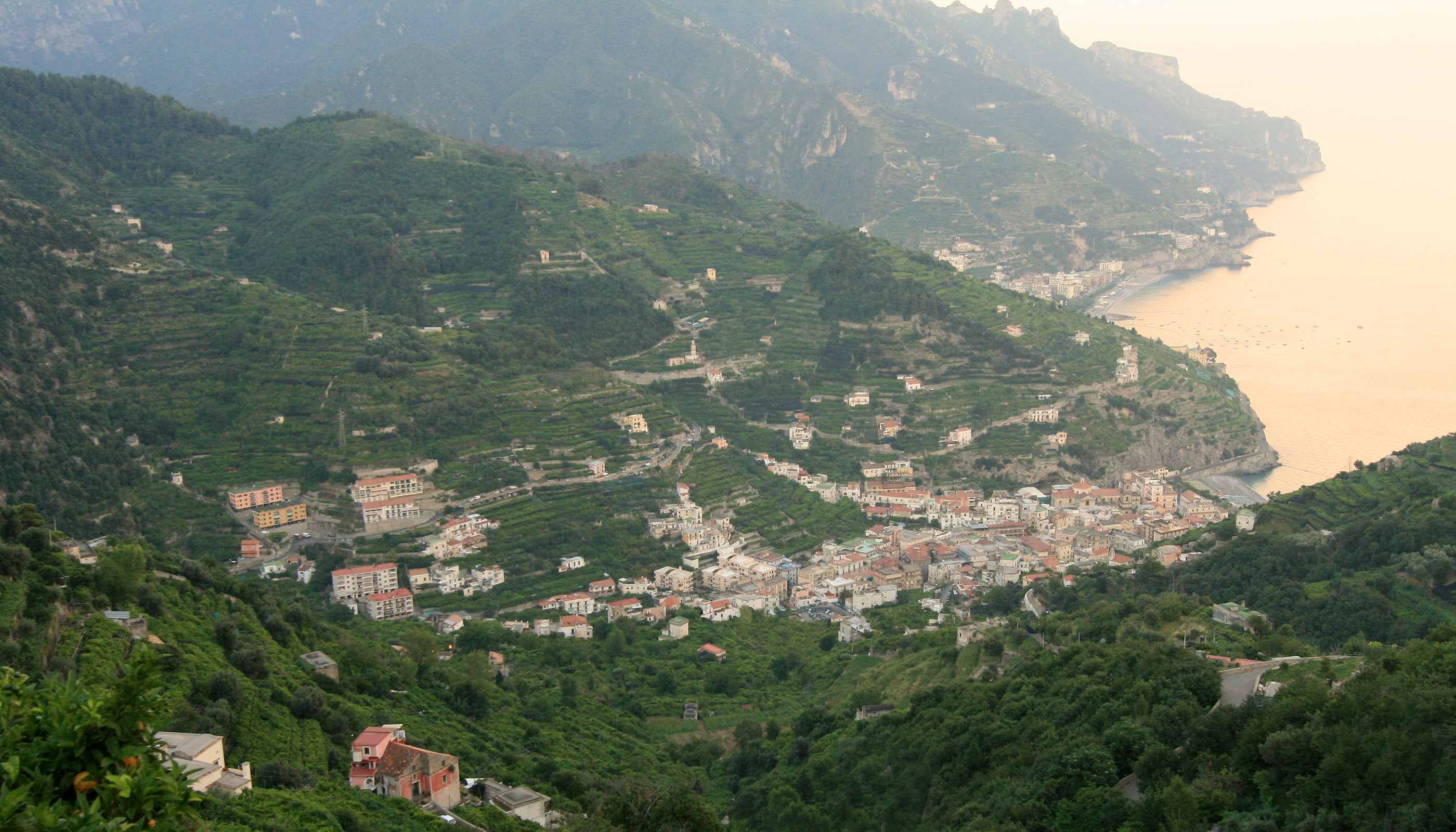 (Part of) Minori on the Amalfitan Coast, Italy, seen from neighbouring city Ravello.